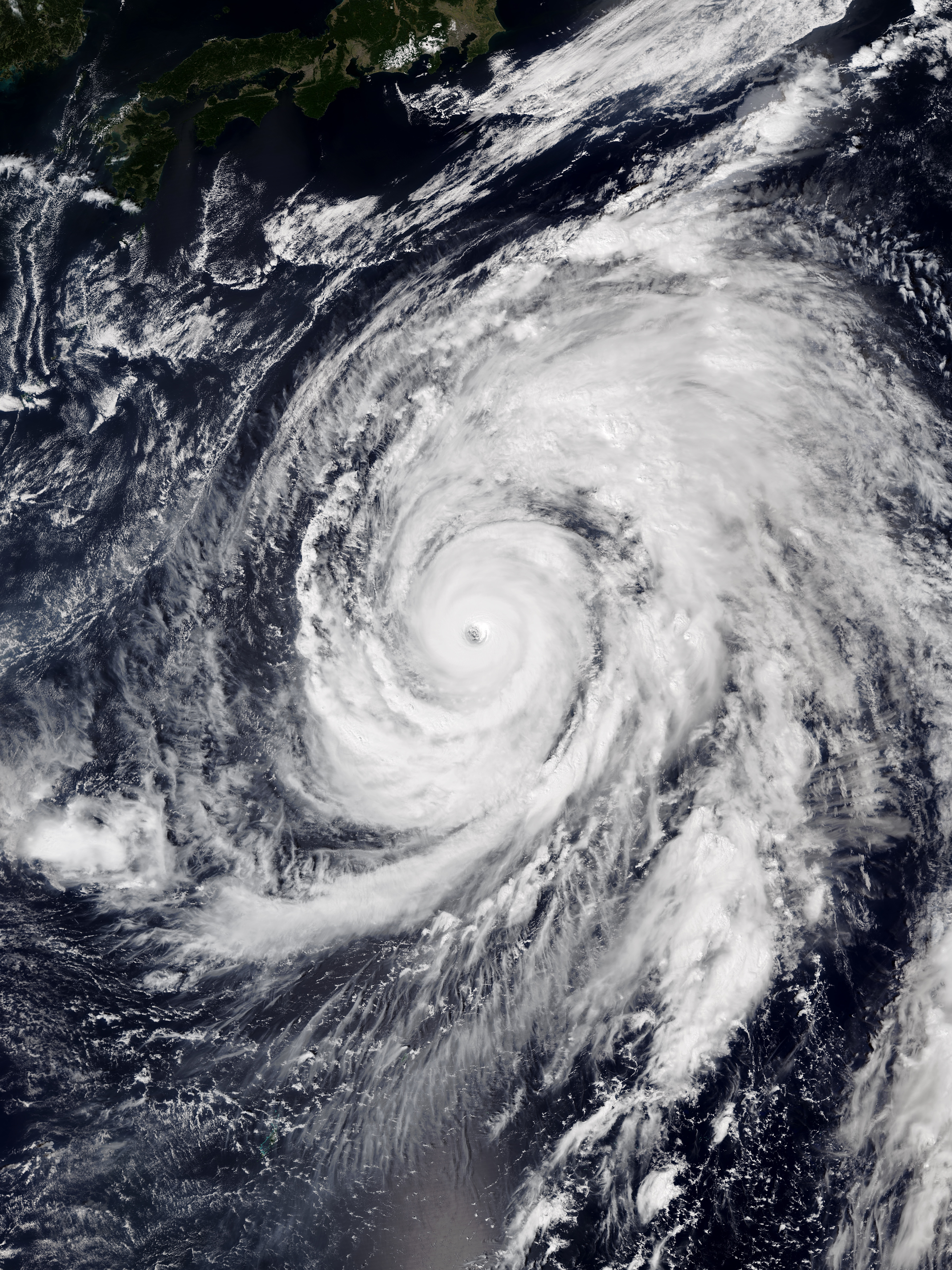 Typhoon Hagibis at its second peak intensity on 9 October 2019, located approximately 1,600 km (1,000 mi) south of Honshu, Japan. Maximum 10-minute sustained winds are at 195 km/h (120 mph), and one-minute sustained winds are at 260 km/h (160 mph), making Hagibis a Category 5 super typhoon on the Saffir-Simpson hurricane wind scale.